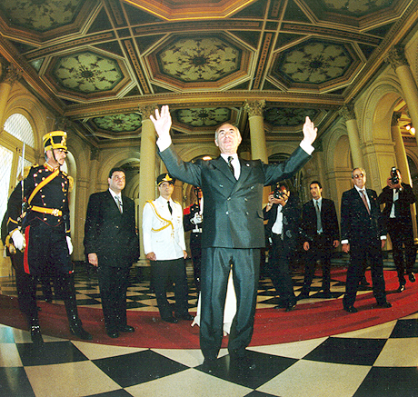 BUENOS AIRES- ASUME COMO PRESIDENTE DE LA NACION, EL DR. FERNANDO DE LA RUA. (SPYD 10-12-99)